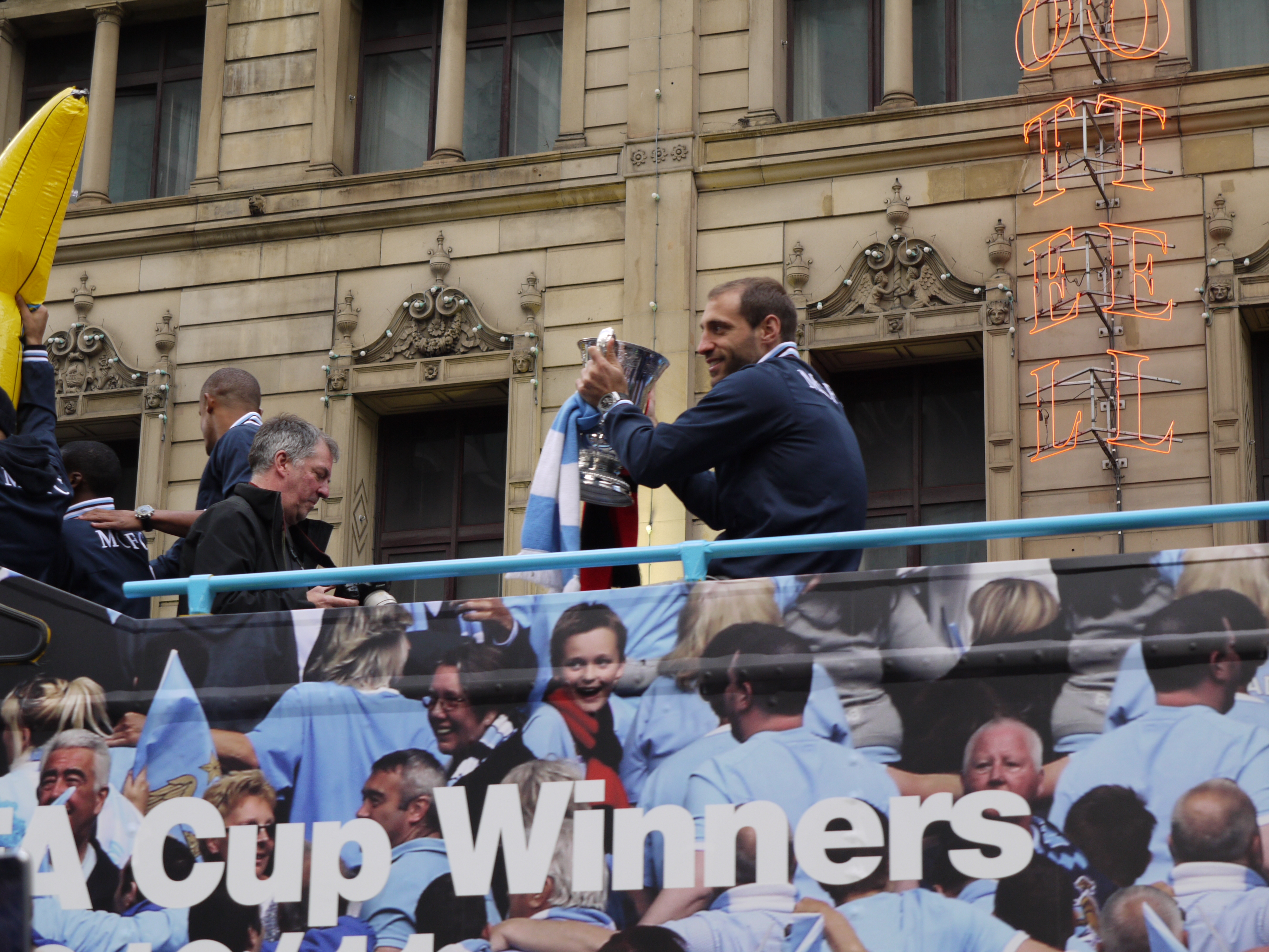 Manchester City FC. FA Cup Winners 2011